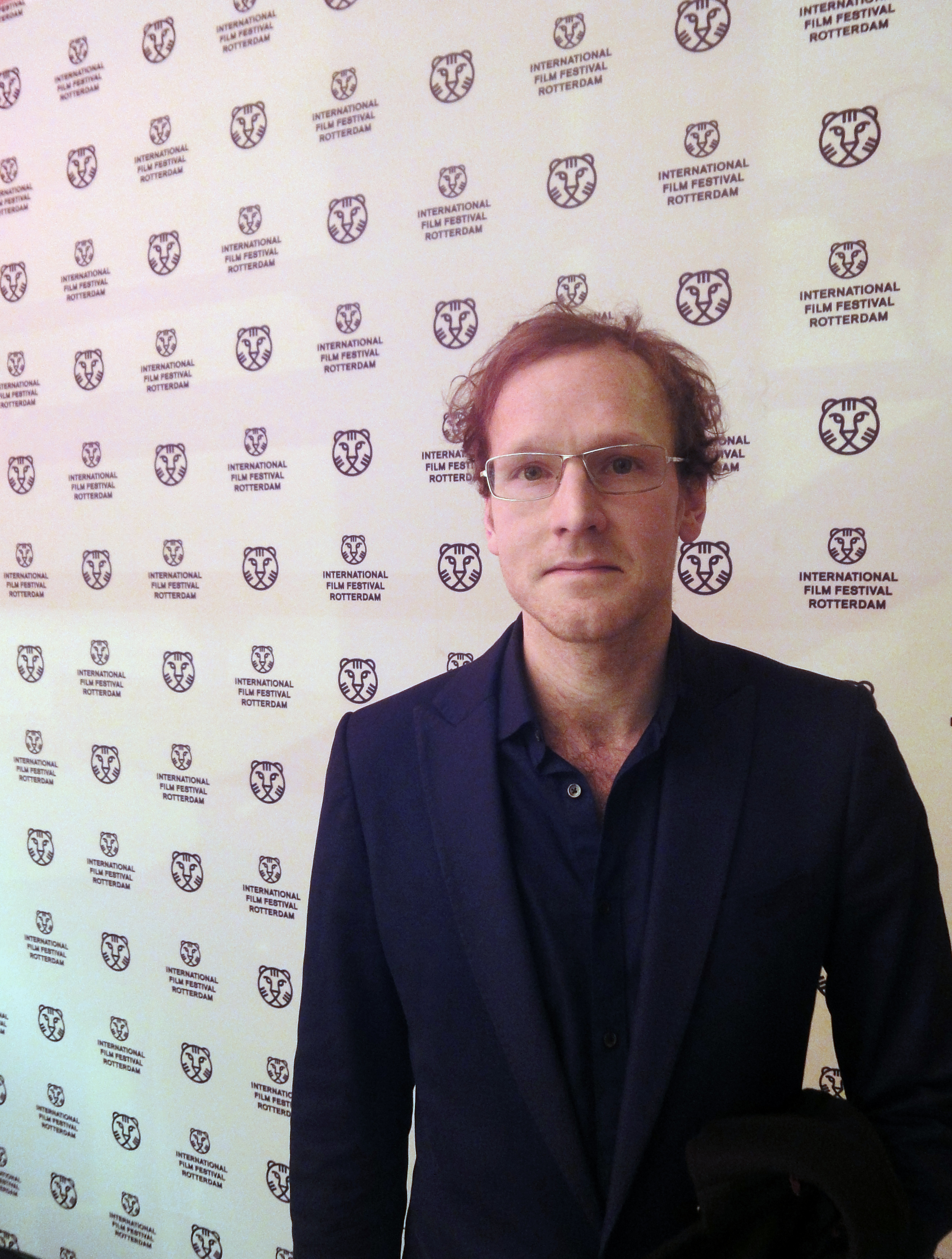 Guido van der Werve at the International Film Festival Rotterdam, 2013 after the screening of his movie "Nummer veertien, home"